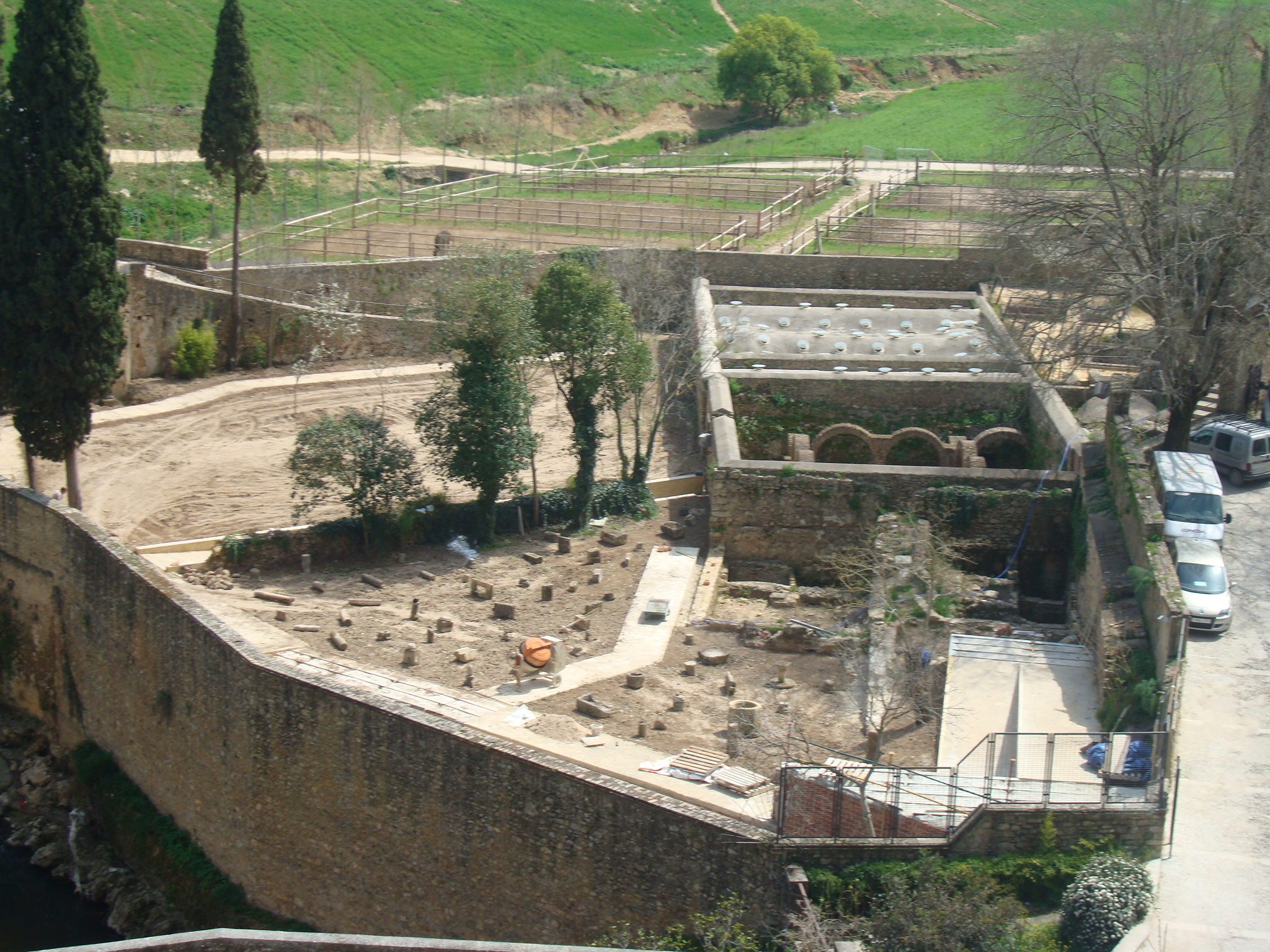 A photo of a landscape in Ronda, containing the ruins of the Arab baths of Ronda, Spain